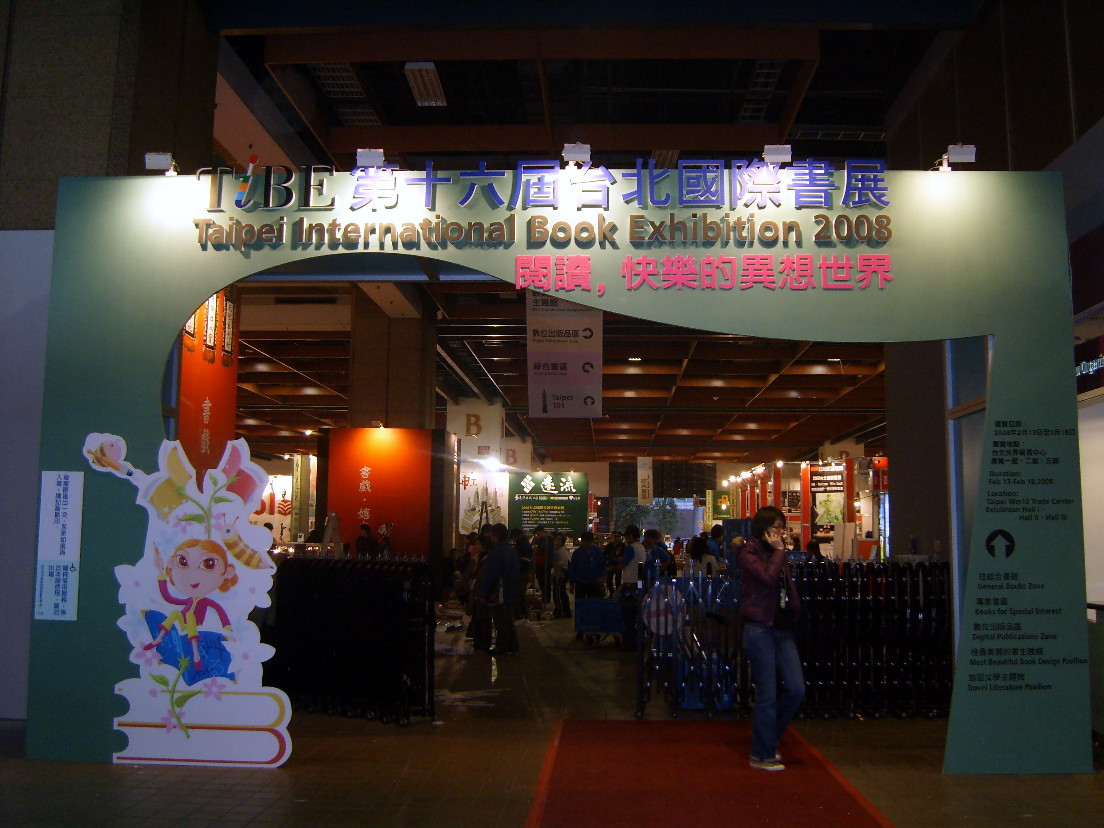 2008 Taipei International Book Exhibition - Hall 1 Entrance.